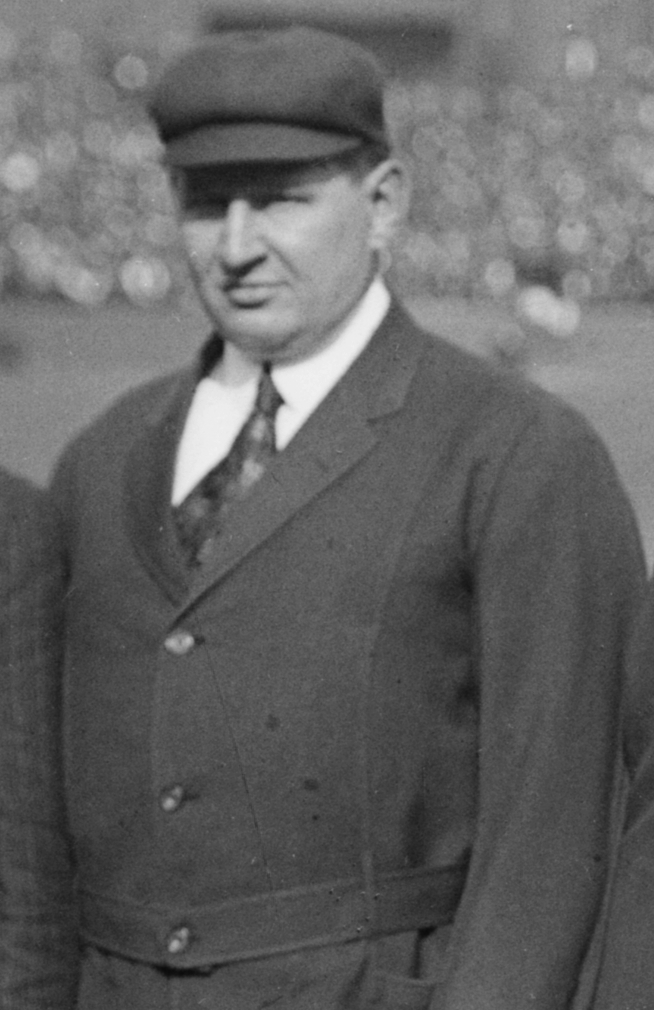 Umpire Cy Rigler at the Baker Bowl during the 1915 World Series.